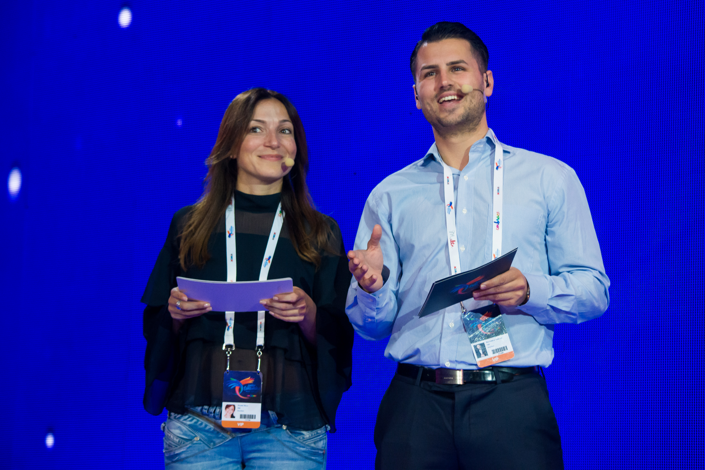 JESC 2016 presenters - Ben Camille and Valerie Vella